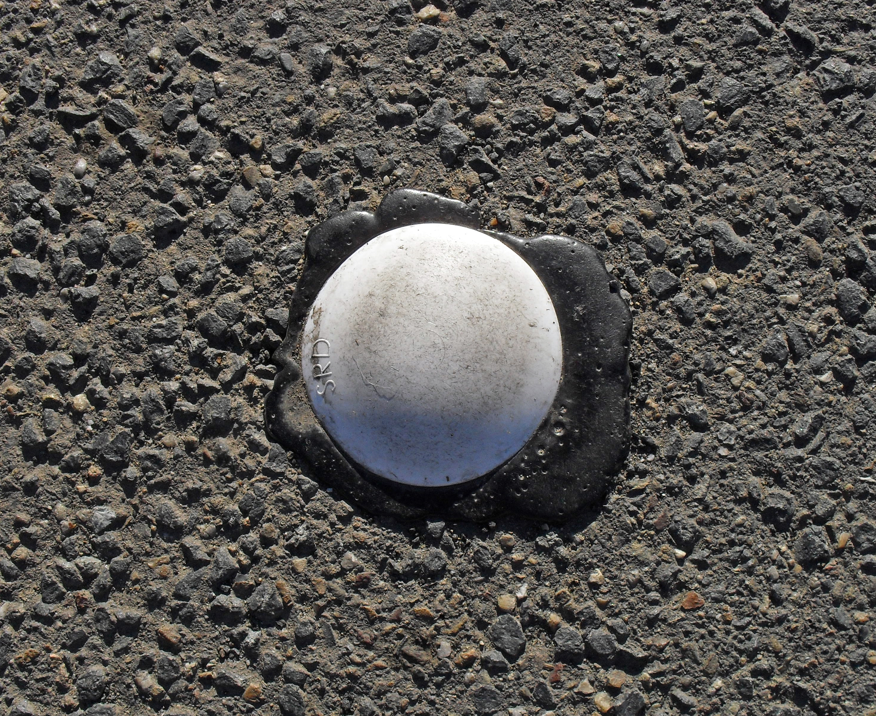 A round botts' dot (A type of raised pavement marker) photographed in Australia.